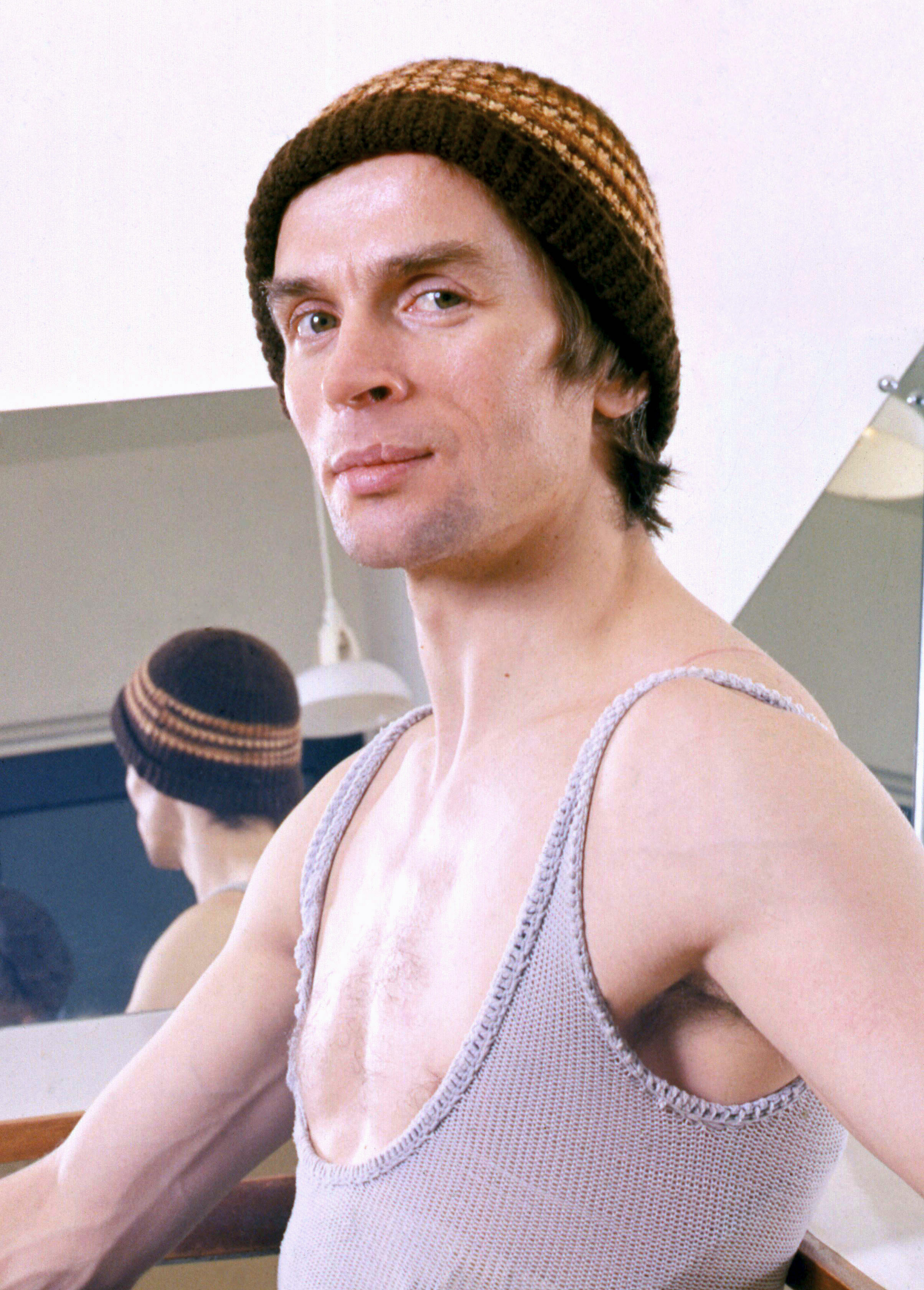 Nureyev London